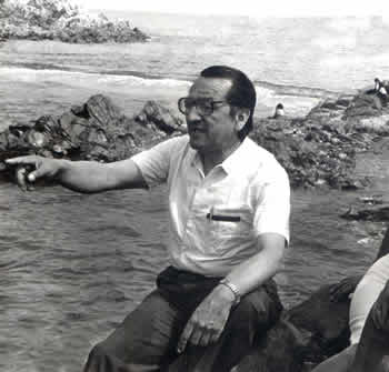 Barrantes